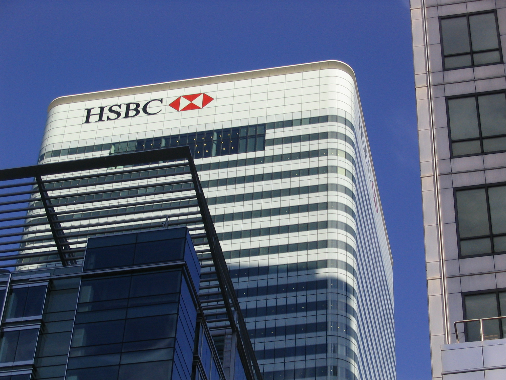 HSBC building, Canary Wharf, London, England.